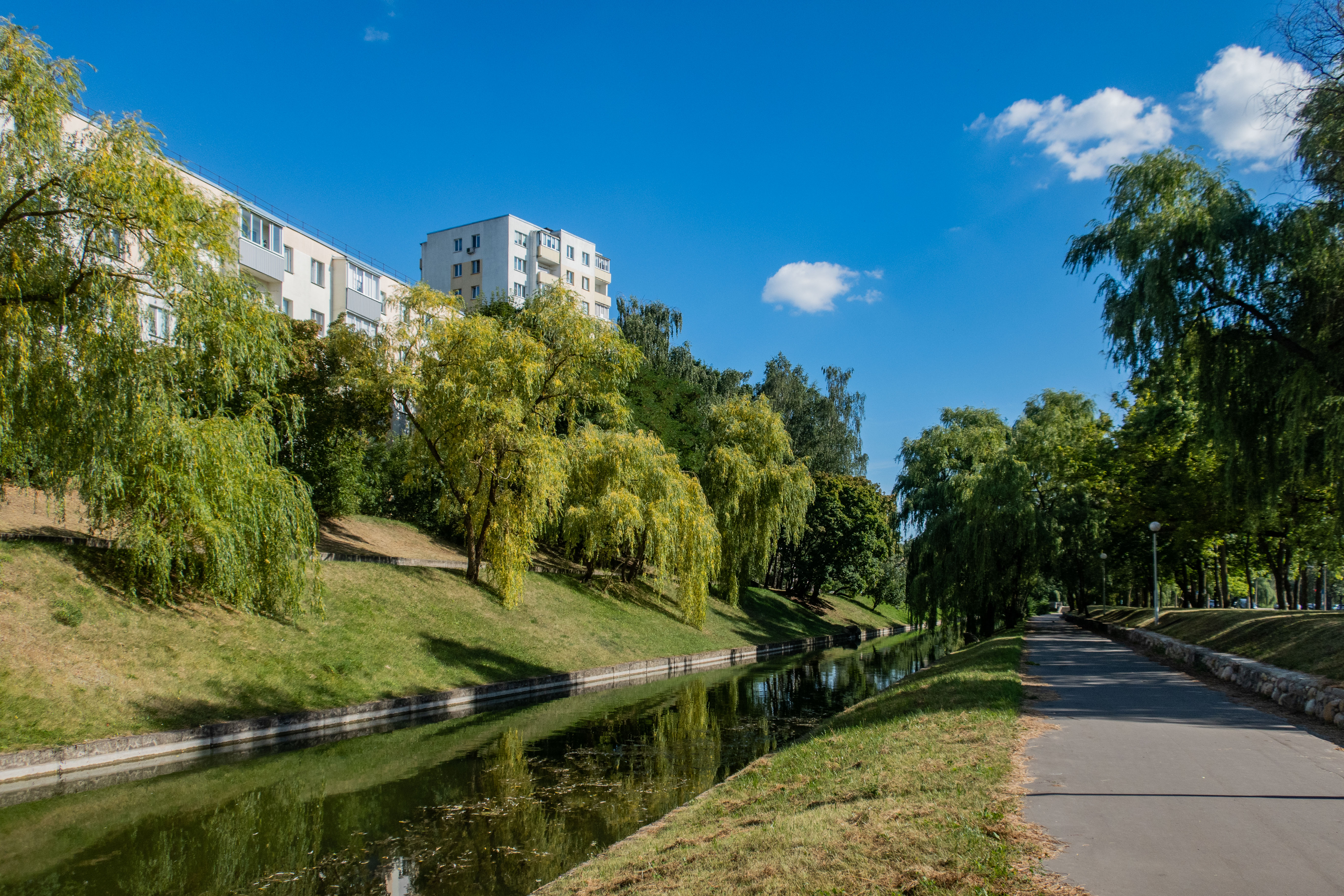 Sliapianka water system in Uschod microdistrict. Minsk, Belarus